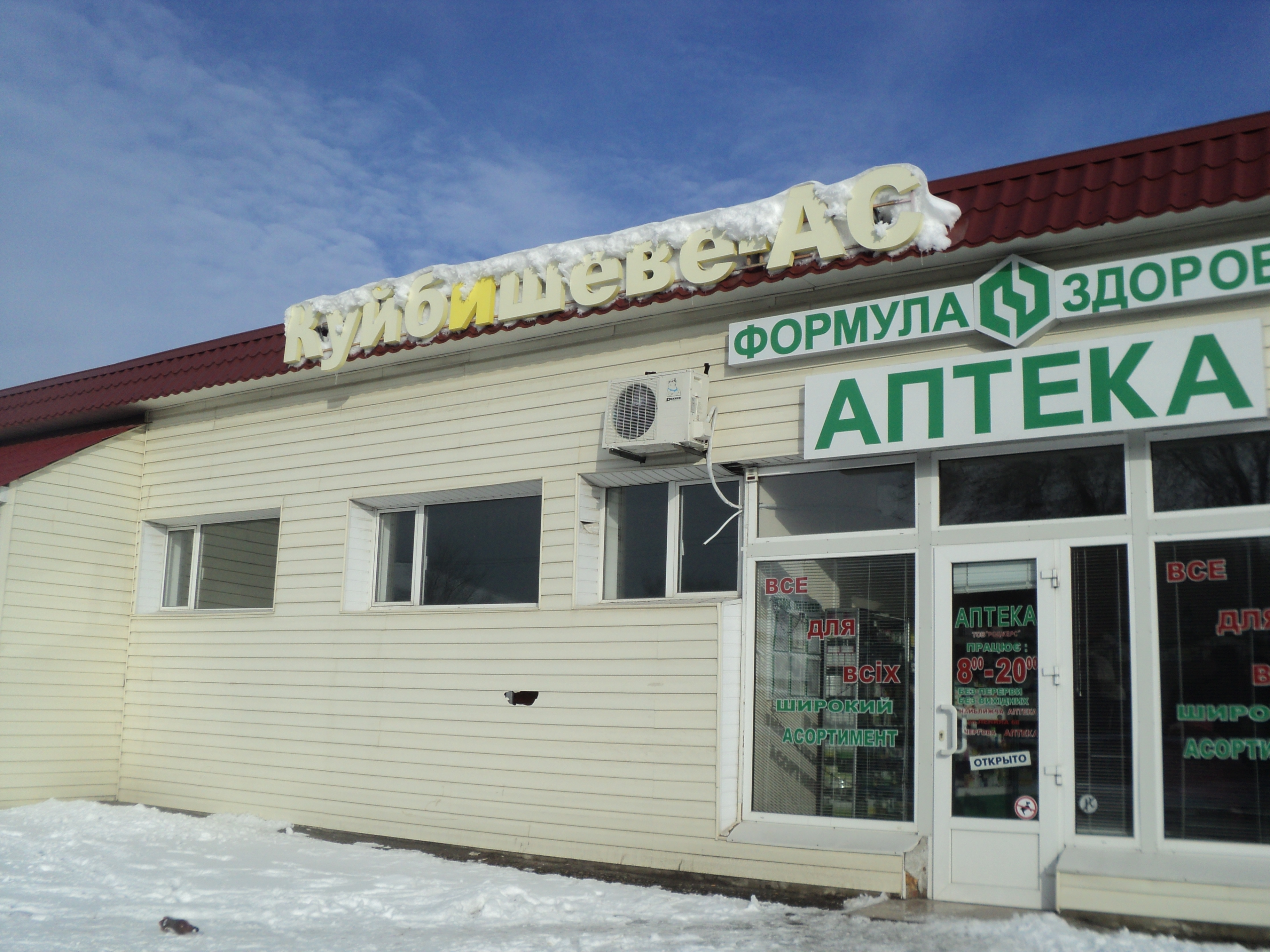 Bus station in the Kujbysheve